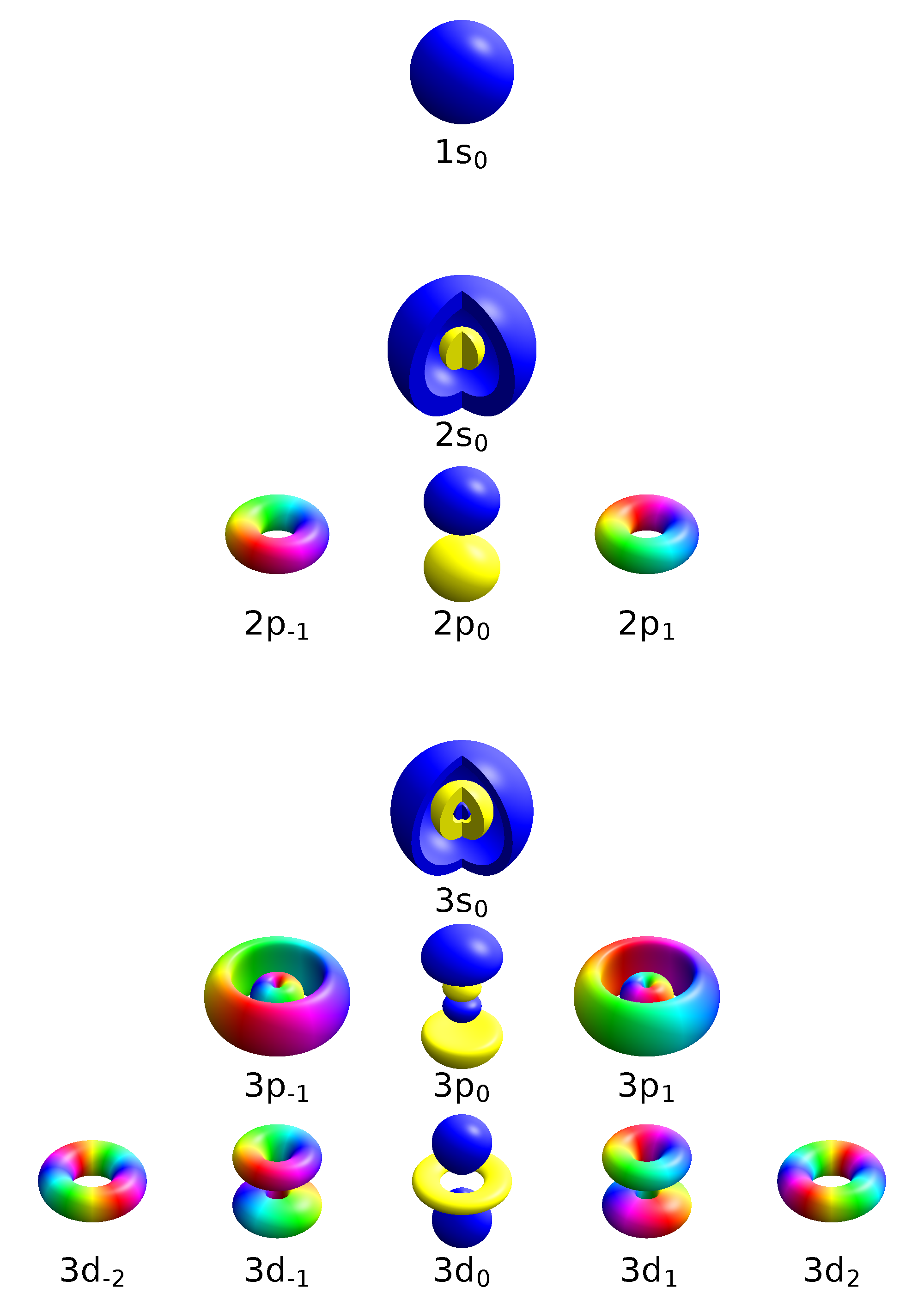 Collection of all 14 atomic single-electron orbitals for the lowest three n quantum numbers. The three blocks show the quantum numbers n=1, n=2 and n=3, respectively. Each row shows one l-quantum number l=0 (s), l=1 (p) and l=2 (d) with m quantum numbers m ∈ { − l , … , l } {\displaystyle m\in \{-l,\ldots ,l\ in ascending order. The color depicts the complex-valued phase of the wavefunction. In contrast to the real-valued orbitals in chemistry, which are superpositions of several m-eigenstates, the probability densities shown here are symmetric around the z-axis. The solid bodies enclose the volume where the continuous probability density exceeds a well-chosen threshold. The formulas that describe the orbitals can be found at Hydrogen atom. The 2s and 3s orbitals are cut open to reveal the inner structure. The labels in the image show the quantum numbers nlm with l encoded as letter.